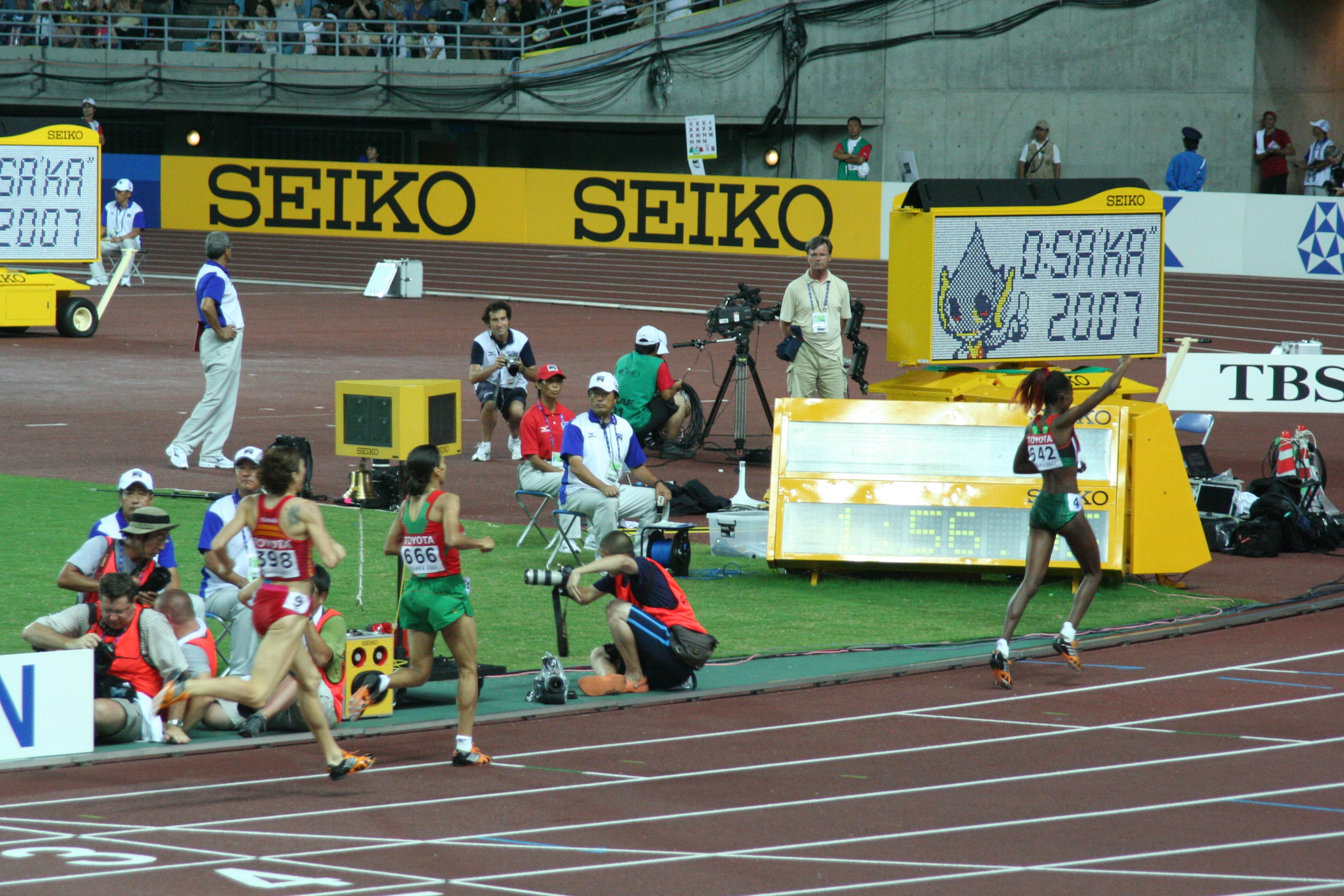 World Athletics Championships 2007 in Osaka - at the finishing line of the women's 800 metres - winner Janeth Jepkosgei (right), second Hasna Benhassi and third Mayte Martinez